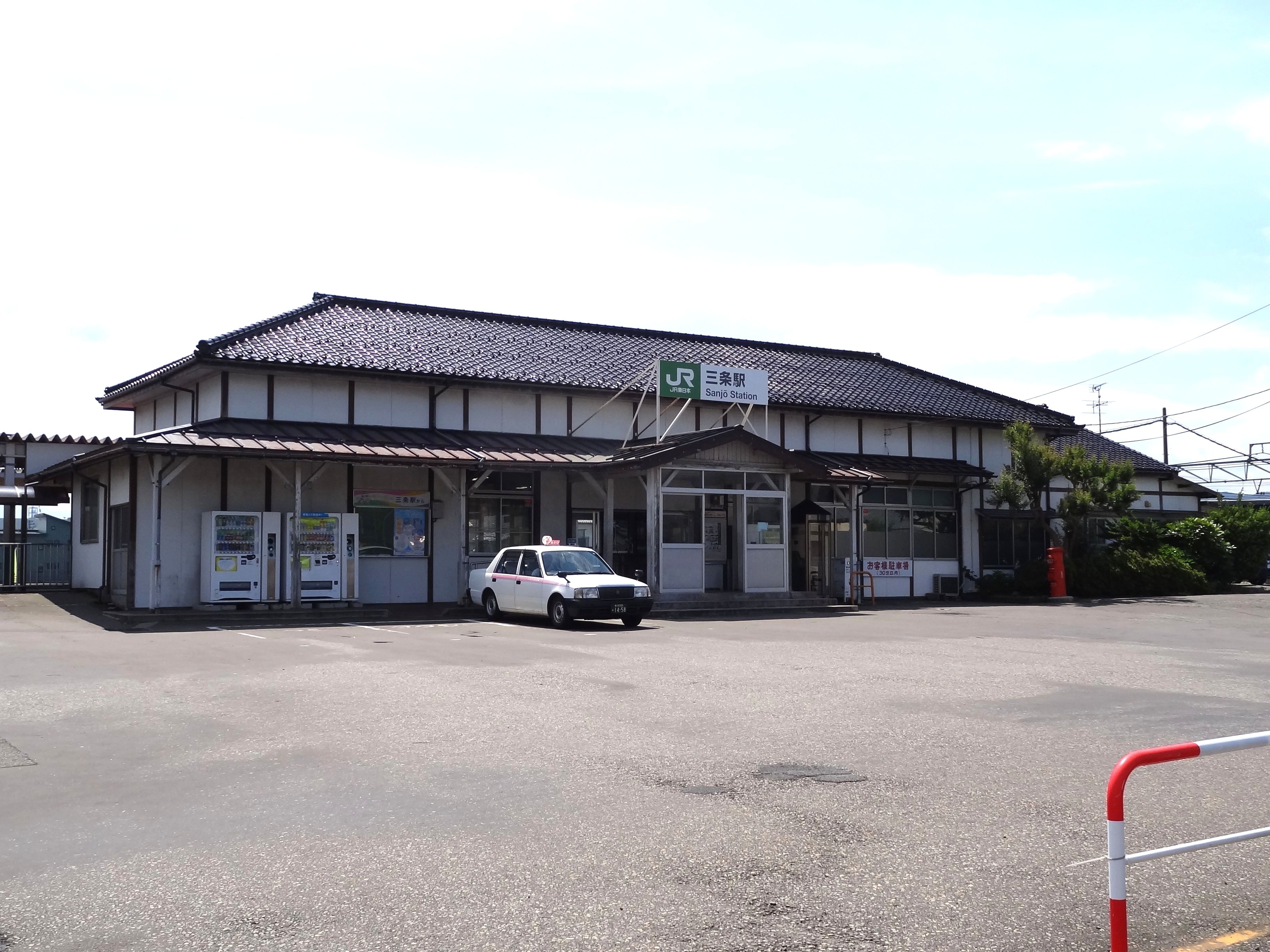 Shin'etsu Main Line Sanjo Station